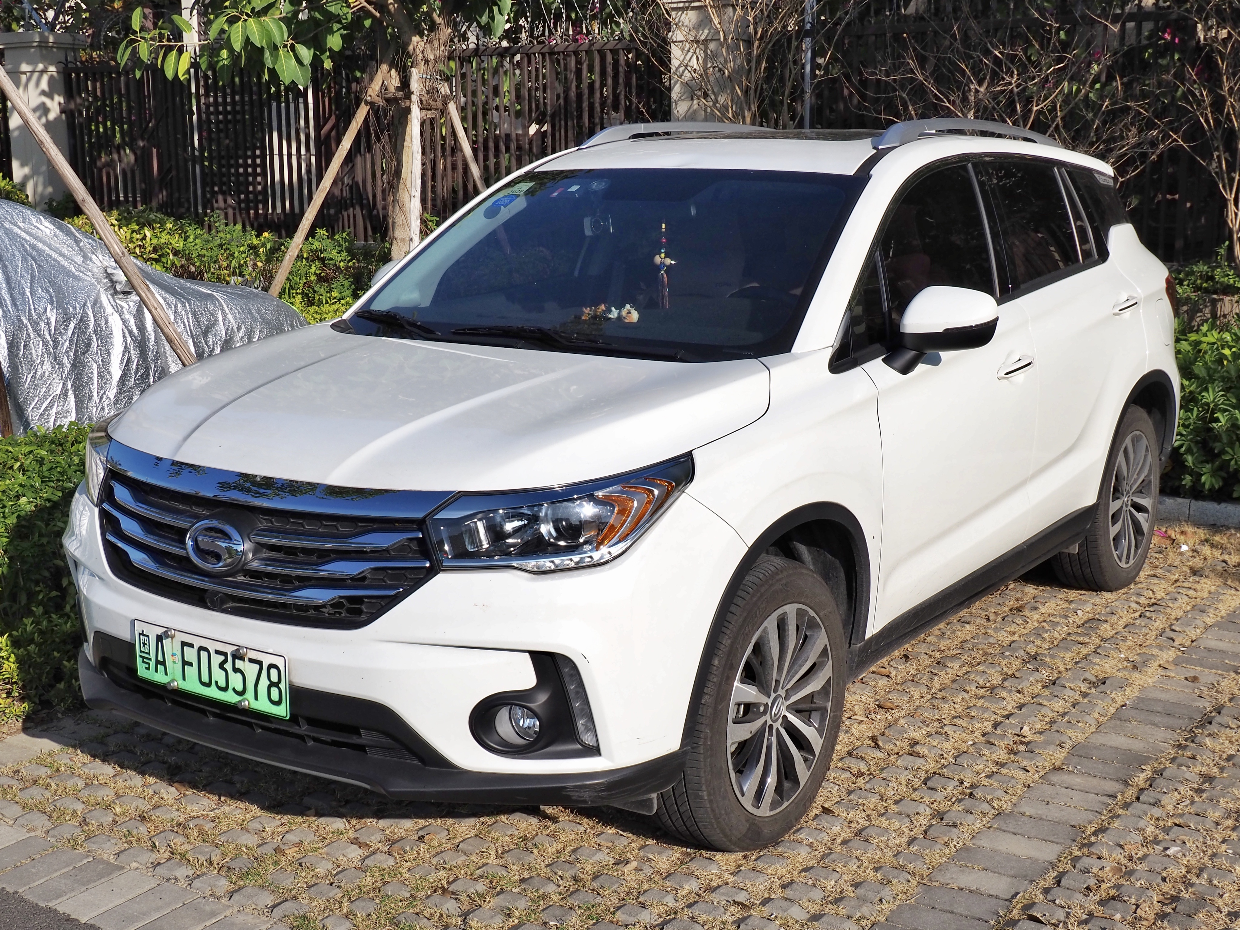 A 2016 GAC Trumpchi GS4 PHEV photographed in Shanwei, Guangdong province, China. 中文（中国大陆）: 一辆2016年的广汽传祺GS4混能，拍摄于中国广东省汕尾市。